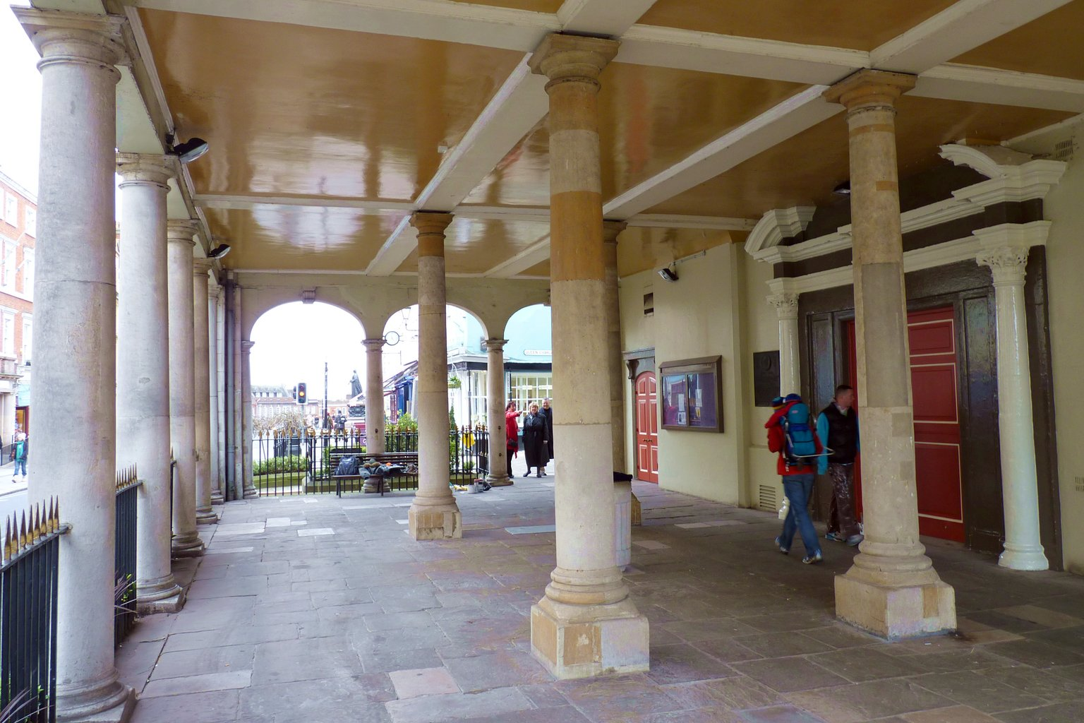 Windsor Guildhall's former covered corn market showing gaps between inside columns and the ceiling.